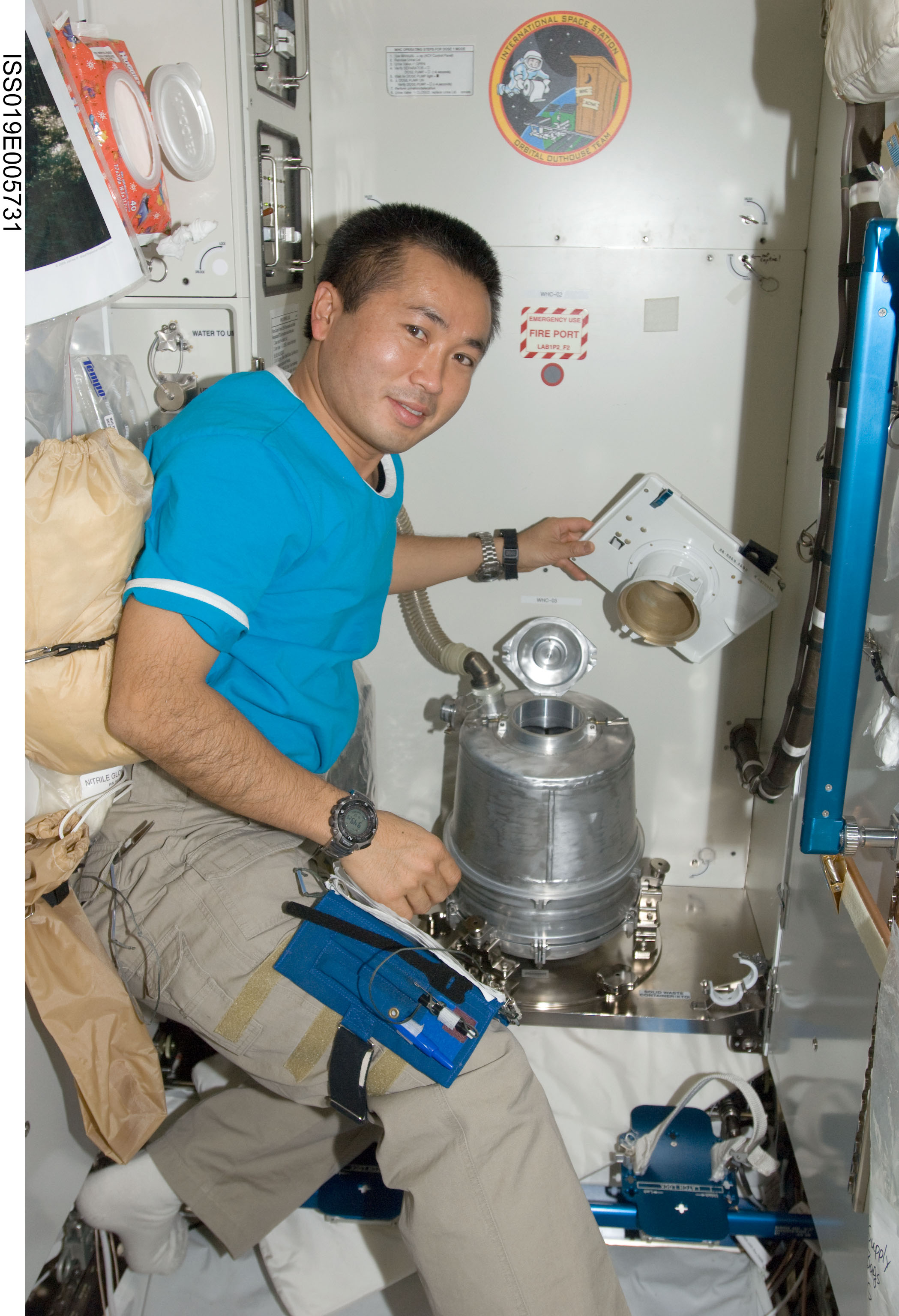 Japan Aerospace Exploration Agency (JAXA) astronaut Koichi Wakata, Expedition 19/20 flight engineer, performs the daily ambient flush of the potable water dispenser in the waste and hygiene compartment located in the Destiny laboratory of the International Space Station.